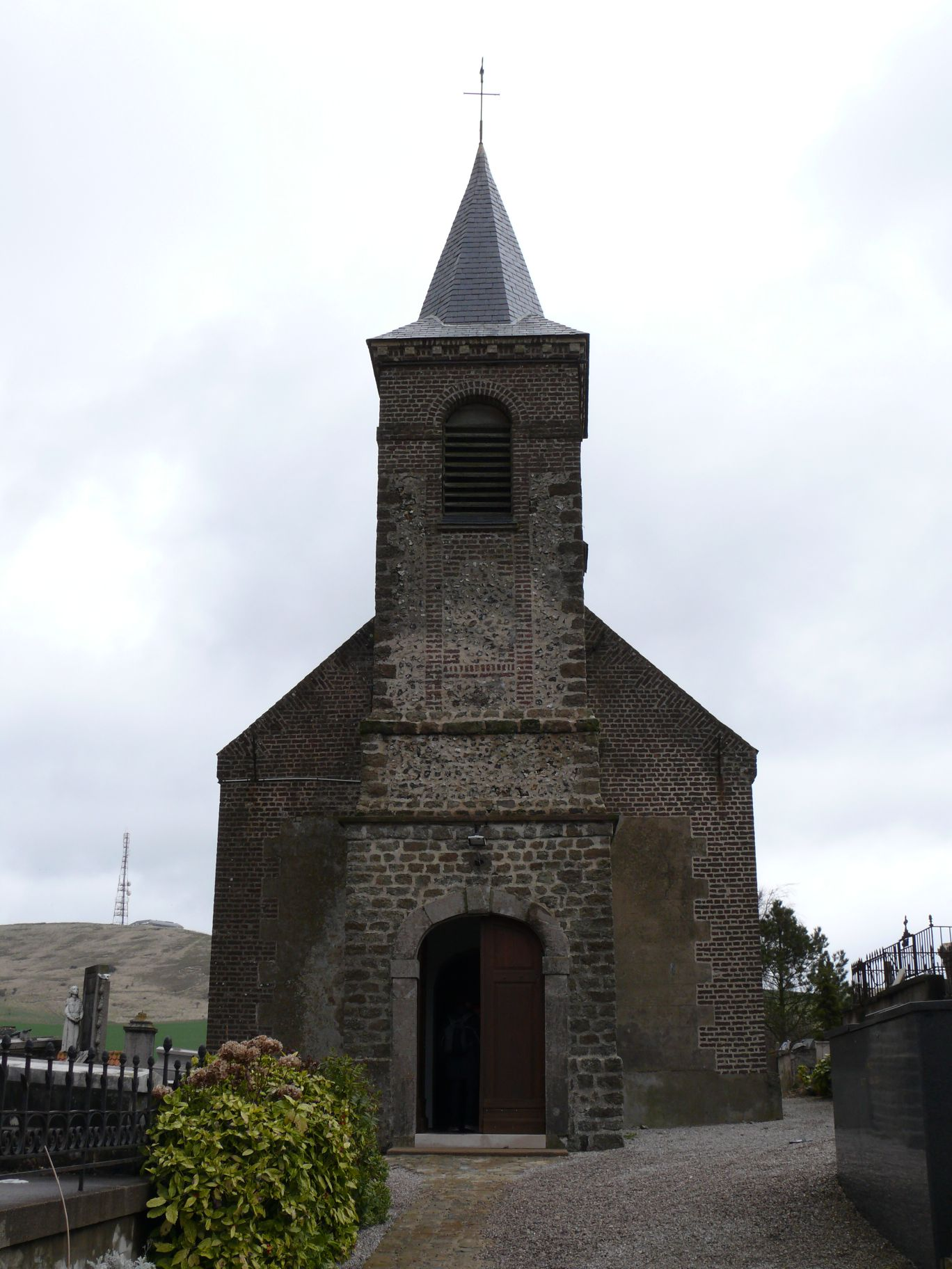 Saint-Maxime's church at Escalles (Pas-de-Calais, France).